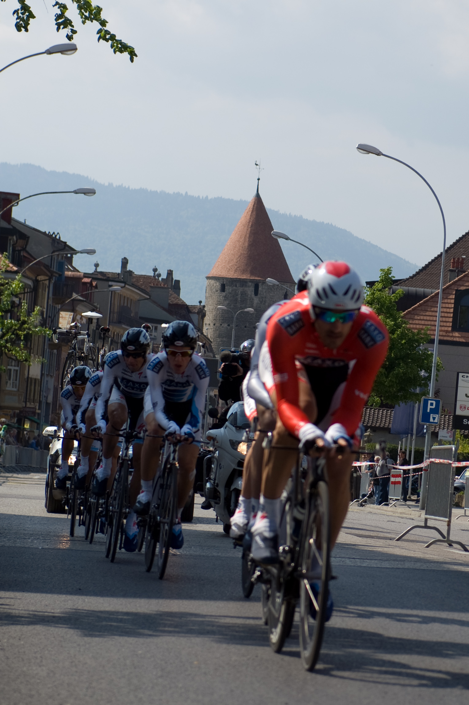 Tour de Romandie 2009 - 3rd stage - team time trial